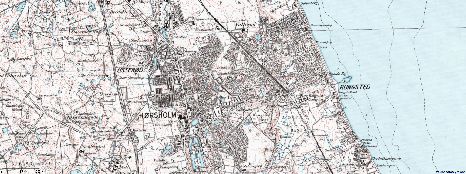 Rungsted 1969